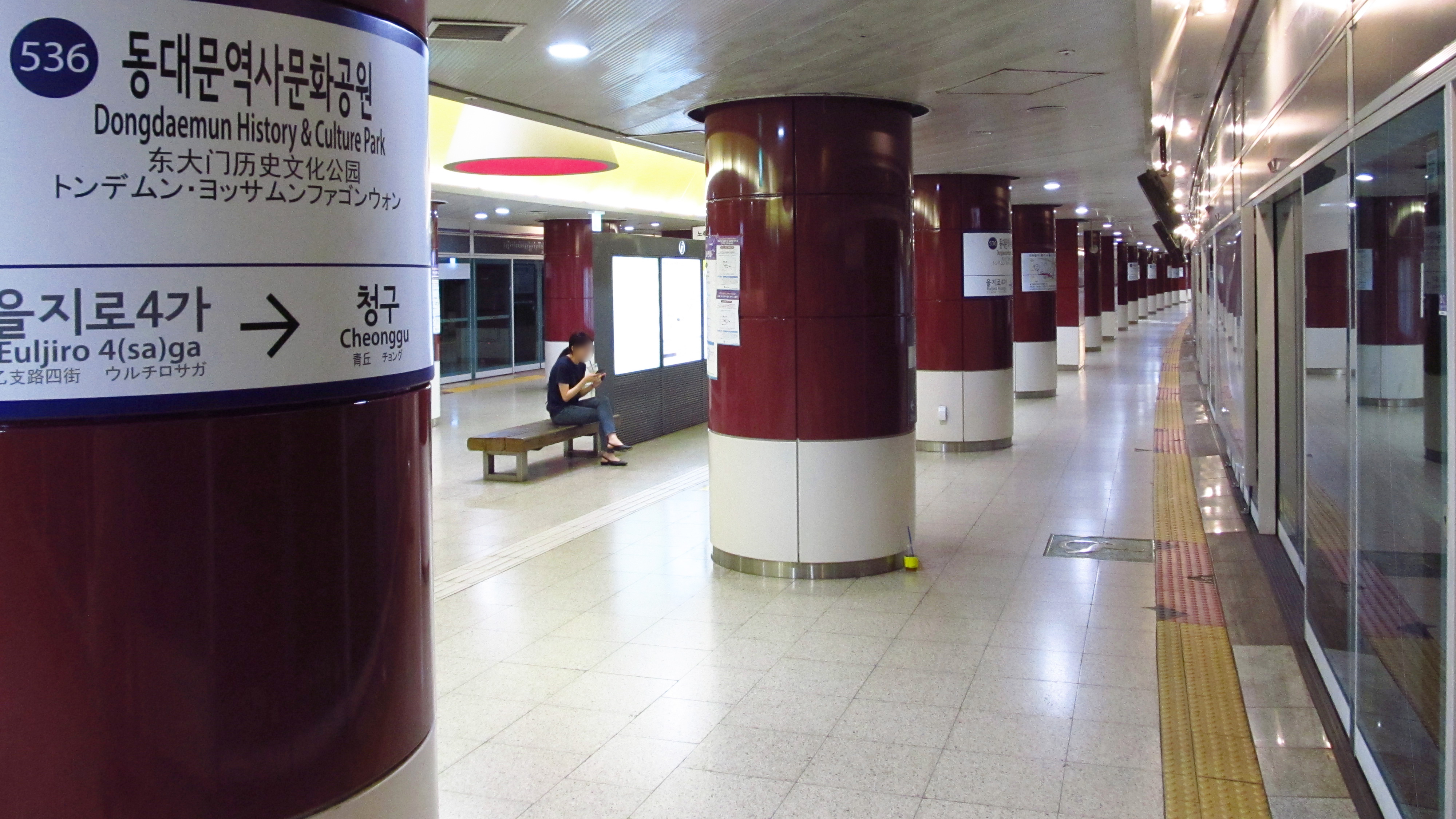 The platform at Dongdaemun History & Culture Park Station on Seoul Subway Line 5 in Jung-gu, Seoul, Republic of Korea(South Korea)